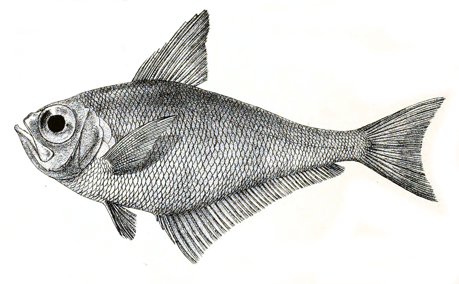 The species names / identity need verification. The original plates showed the fishes facing right and have been flipped here. Pempheris mangula